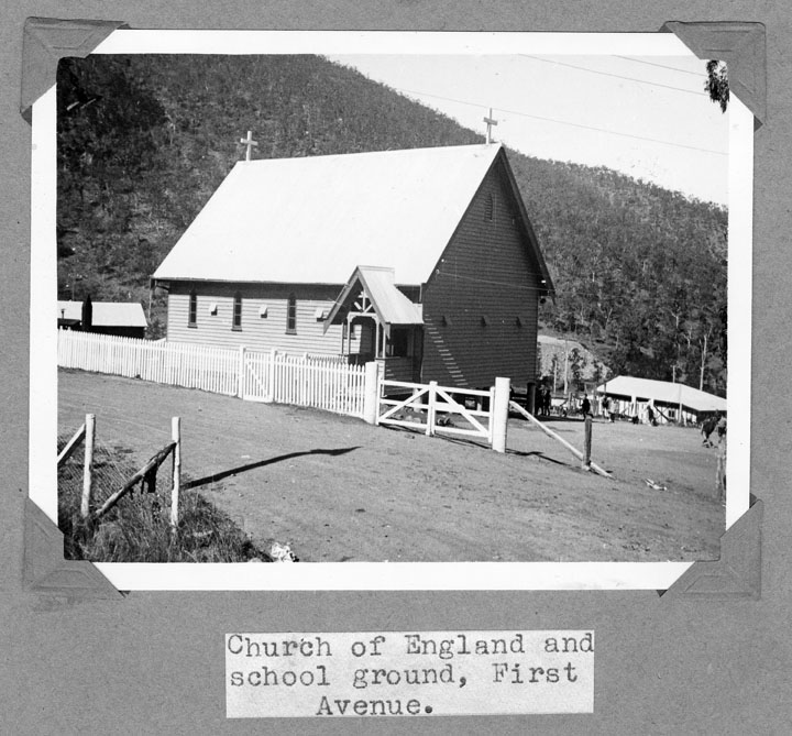 Church of England and school ground, First Avenue, Stanley River Township.